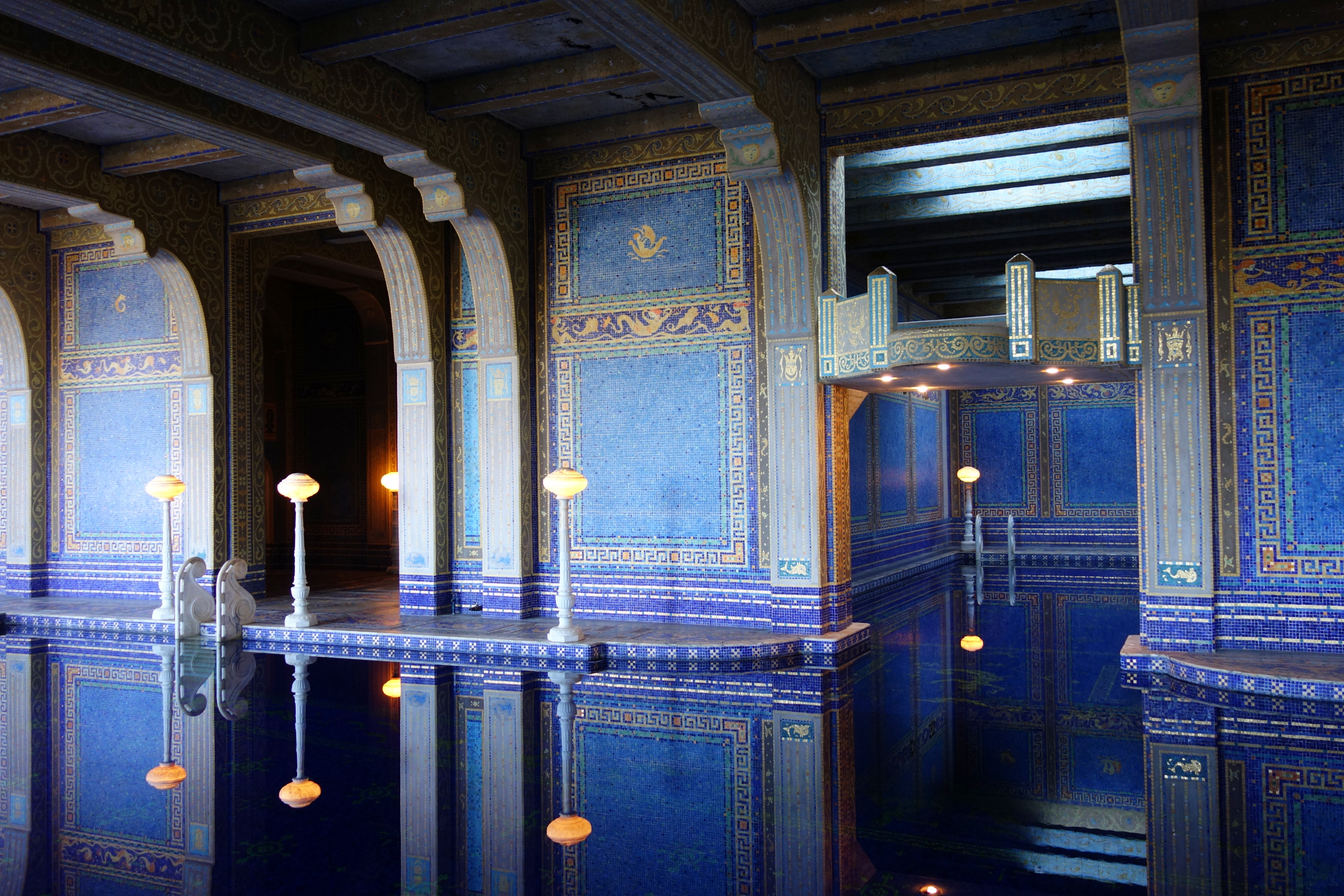 Roman Pool at Hearst Castle, San Simeon, California, USA. Photograph was permitted without restriction in and around the castle. All artwork is old enough so that it is in the public domain.